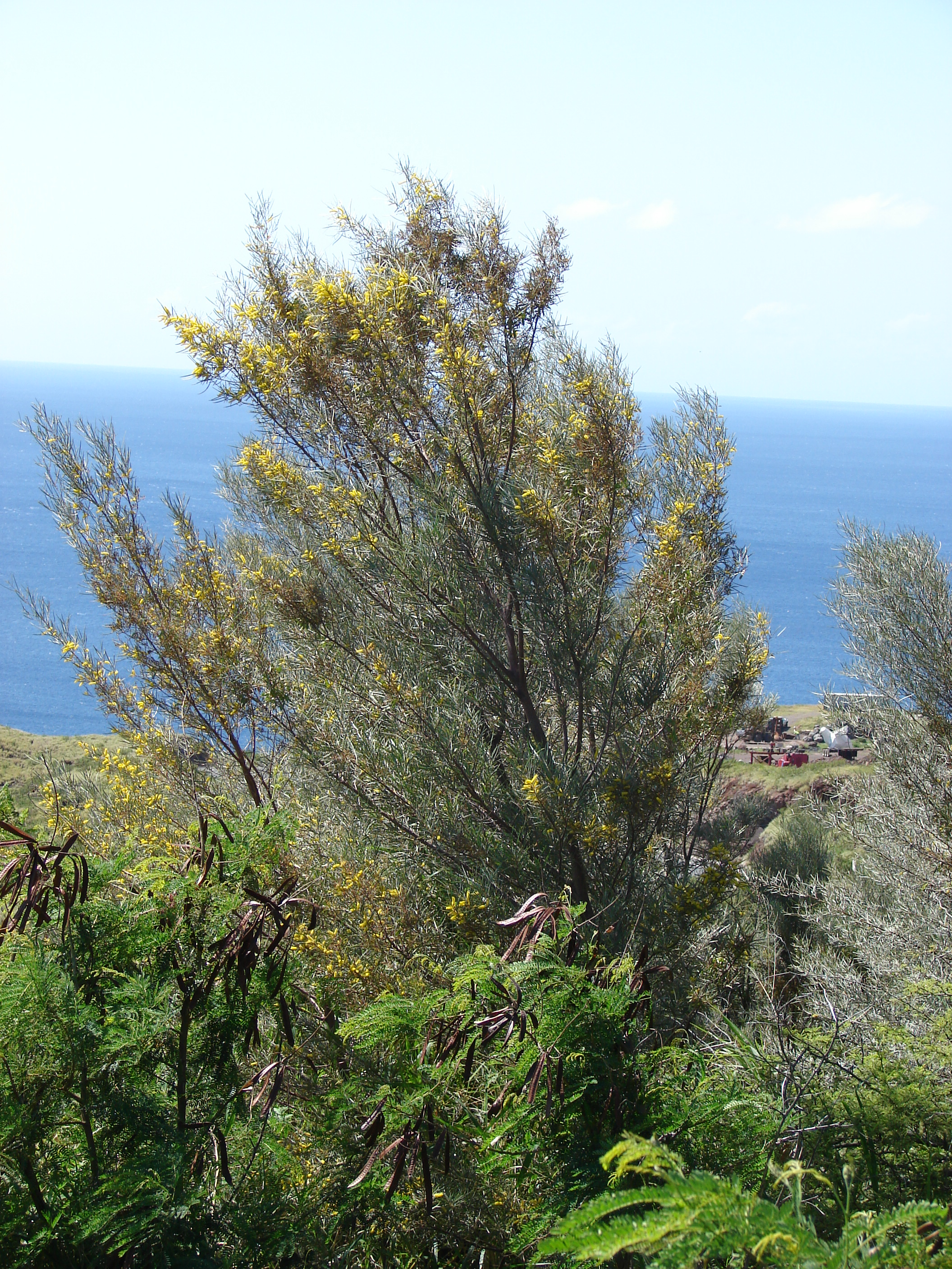 Acacia aneura (habit). Location: Lanai, Kaumalapau Hwy